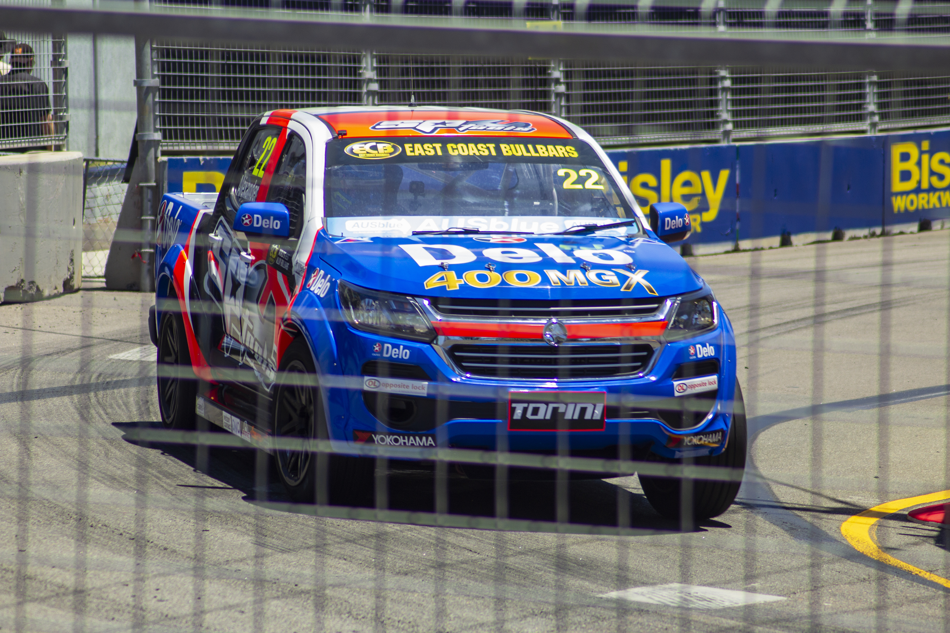 Tom Alexander at the 2018 Coates Hire Newcastle 500